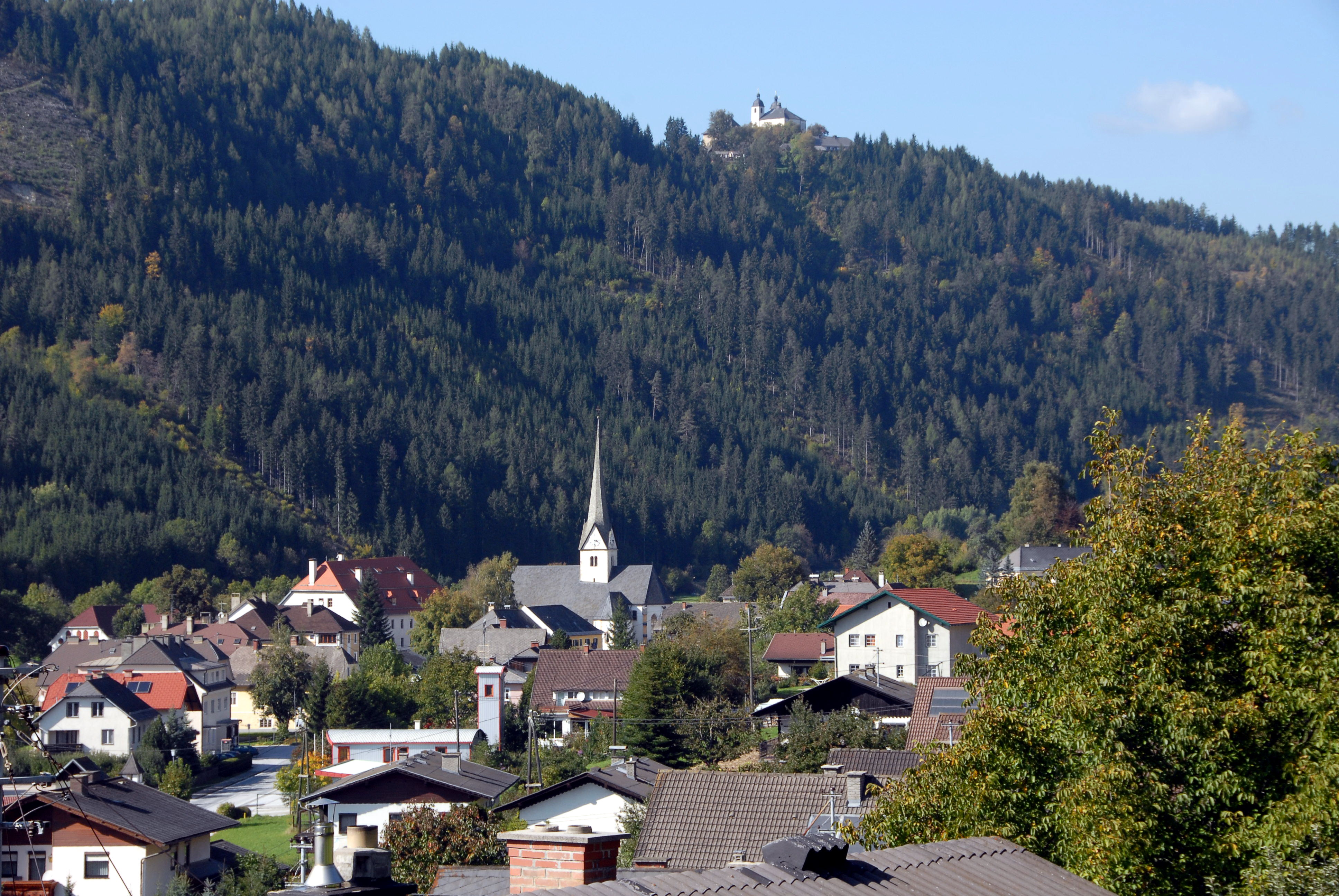 Wieting with pilgrimage church Maria Hilf, municipality Klein Sankt Paul, district Sankt Veit an der Glan, Carinthia / Austria / EU